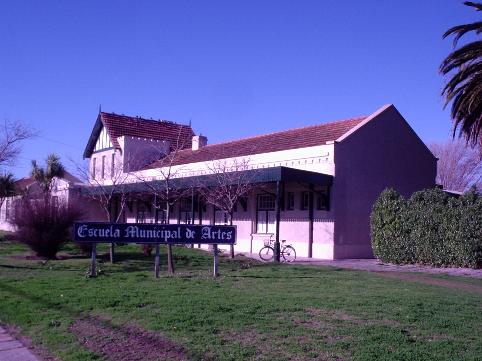 Necochea train station, currently an arts school. The station entered into disuse in 1968.